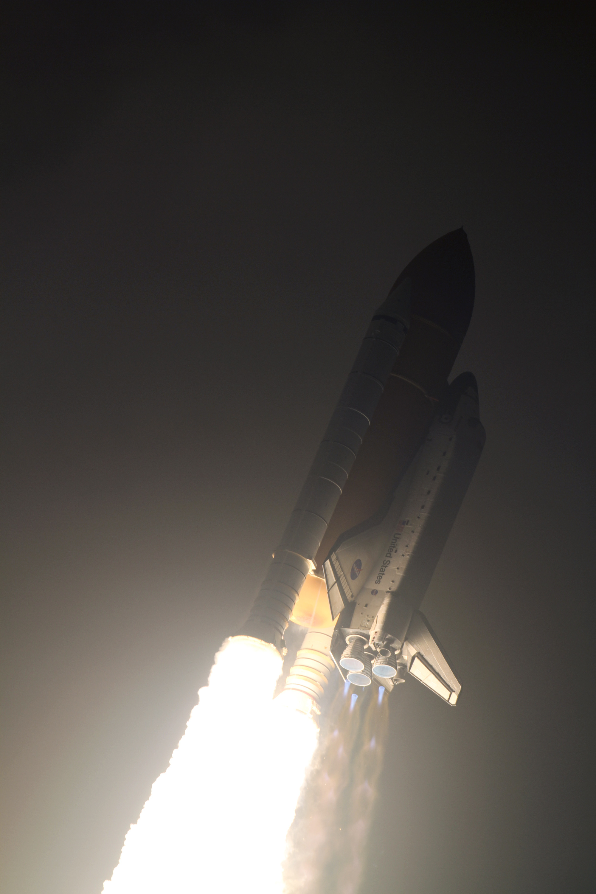 CAPE CANAVERAL, Fla. - Space shuttle Endeavour races to orbit from Launch Pad 39A at NASA's Kennedy Space Center in Florida. Launch of the STS-130 mission to the International Space Station was at 4:14 a.m. EST. This was the second launch attempt for space shuttle Endeavour's STS-130 crew and the final scheduled space shuttle night launch. The first attempt on Feb. 7 was scrubbed due to unfavorable weather. The primary payload for the STS-130 mission to the International Space Station is the Tranquility node, a pressurized module that will provide additional room for crew members and many of the station's life support and environmental control systems. Attached to one end of Tranquility is a cupola, a unique work area with six windows on its sides and one on top. The cupola resembles a circular bay window and will provide a vastly improved view of the station's exterior. The multi-directional view will allow the crew to monitor spacewalks and docking operations, as well as provide a spectacular view of Earth and other celestial objects. The module was built in Turin, Italy, by Thales Alenia Space for the European Space Agency. For information on the STS-130 mission and crew, visit